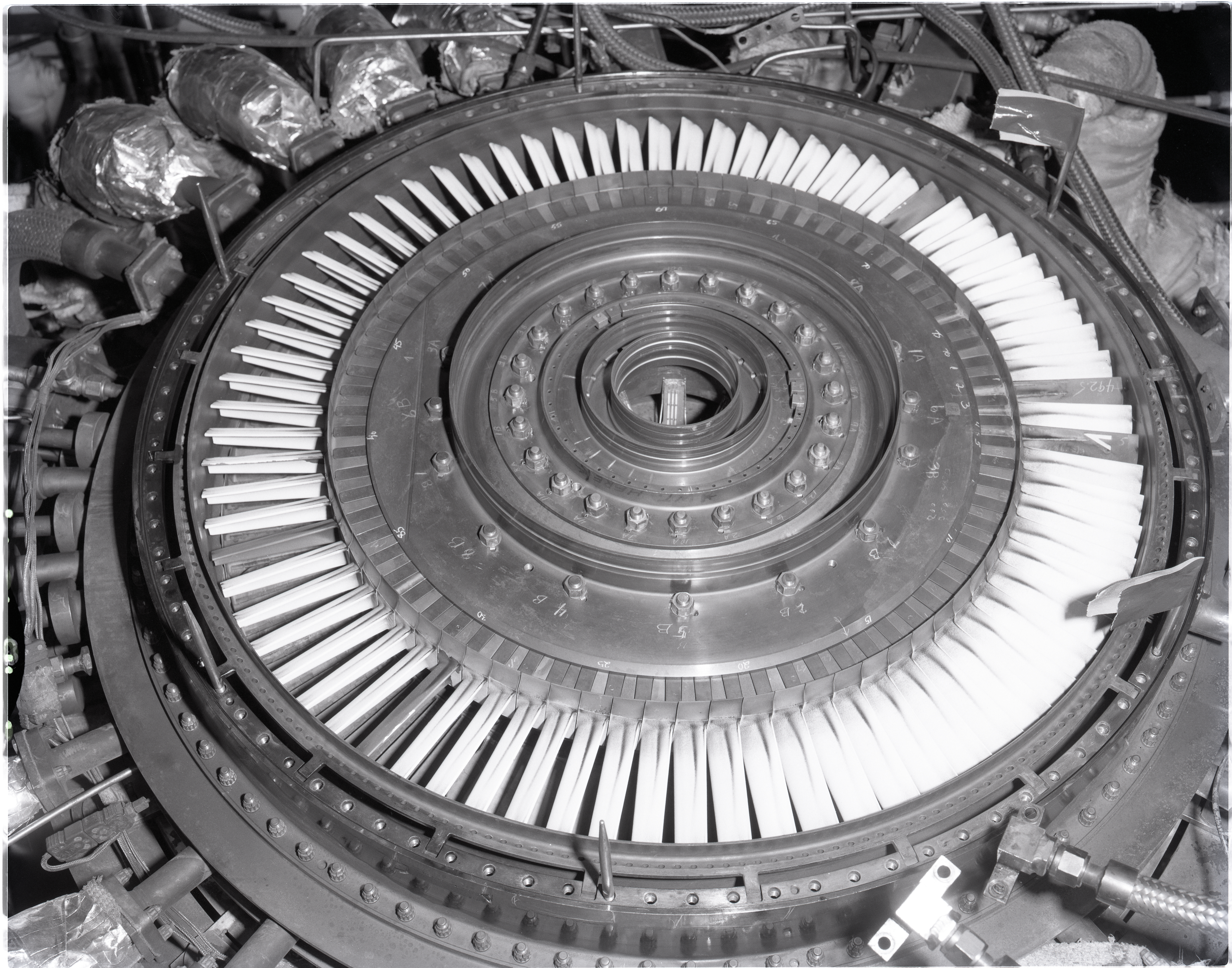 Scope and content: The original finding aid described this as: Capture Date: 4/23/1975 Photographer: MARTIN BROWN Keywords: Larsen Scan